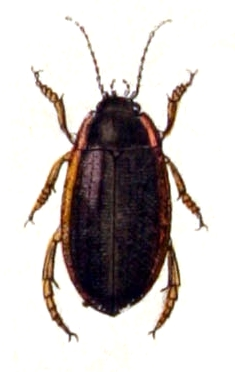 Colymbetes striatus male, from Calwer's Käferbuch, Table 8, Picture 4. Taxonomy was updated to 2008, using mostly the sites Fauna Europaea and BioLib. Please contact Sarefo if the determination is wrong!